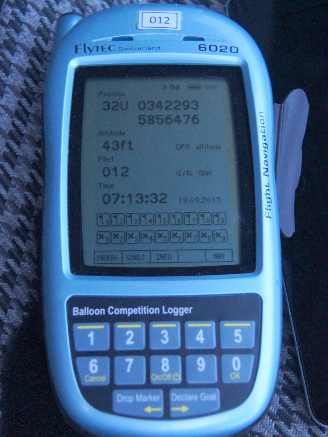 Balloon competition logger (FAI)